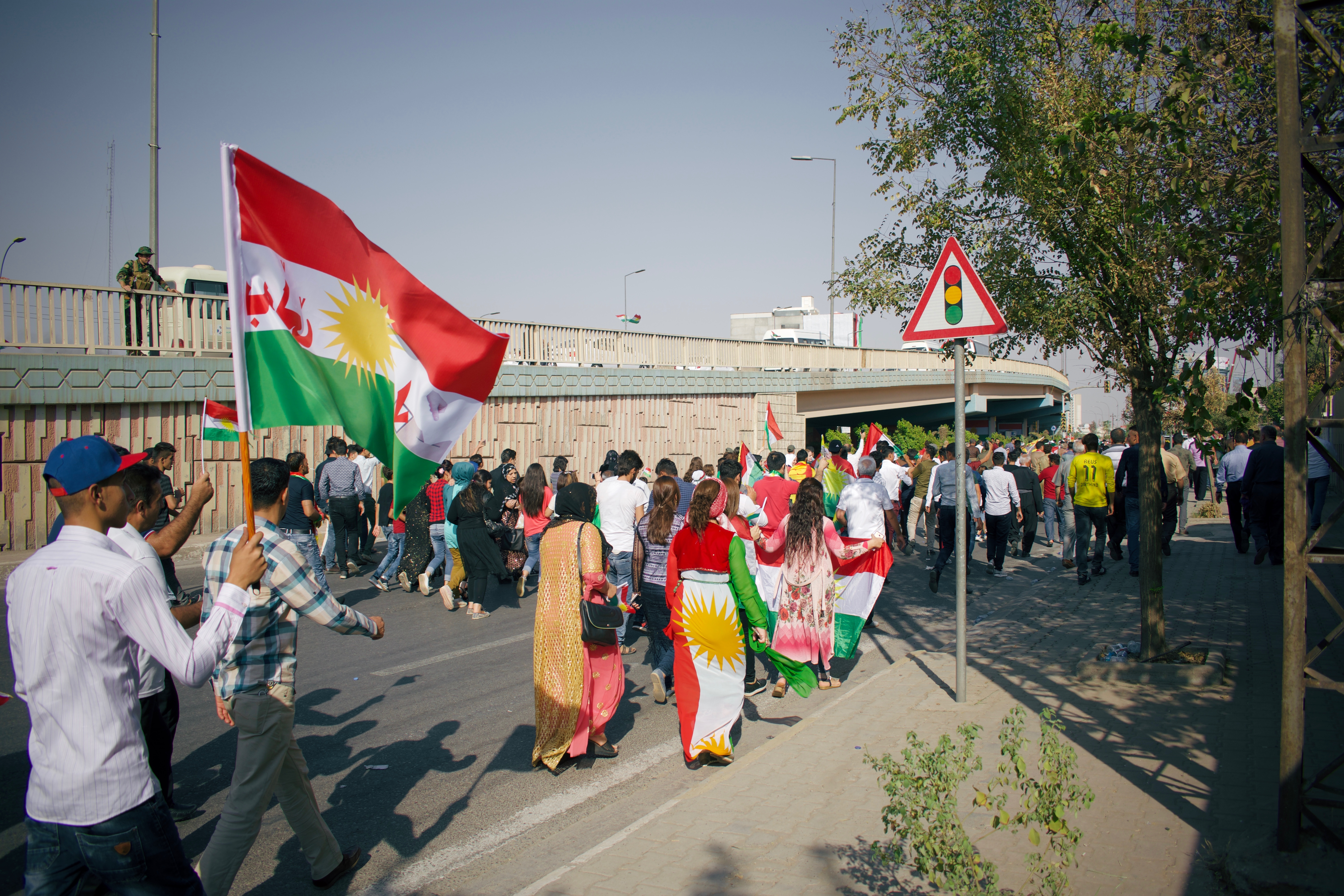 Pro-Kurdistan referendum and pro-Kurdistan independence rally at Franso Hariri Stadiu, Erbil, Kurdistan Region of Iraq.